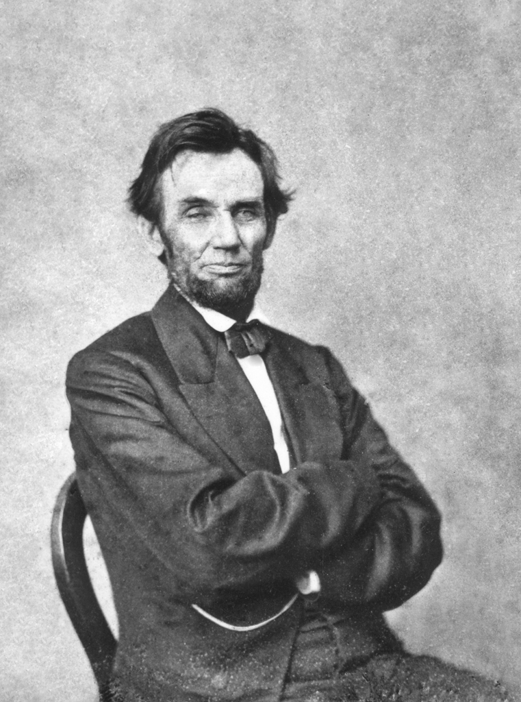 Abraham Lincoln, seated, with unbuttoned coat and gold watch chain.